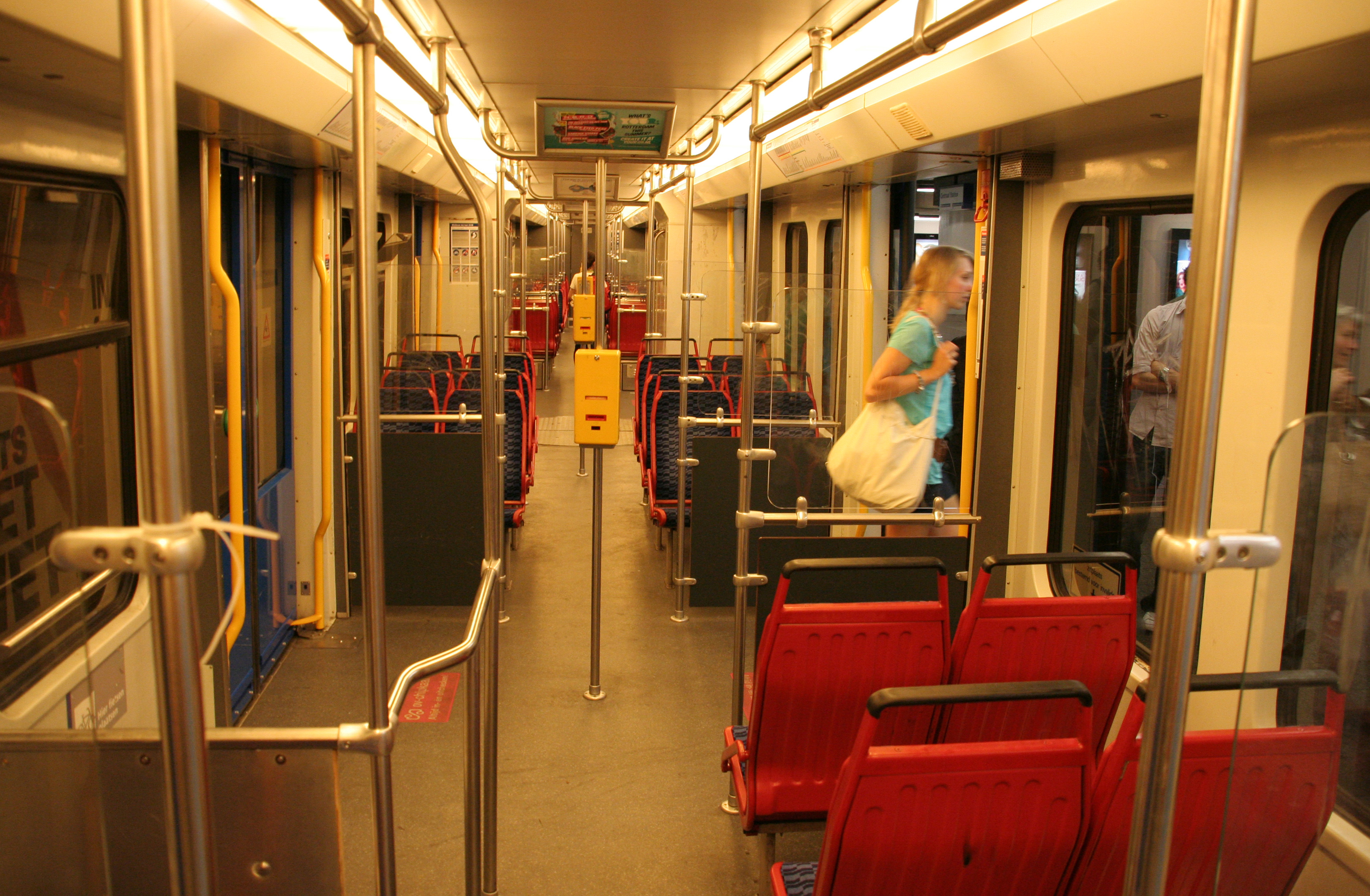 Interior metro Amsterdam